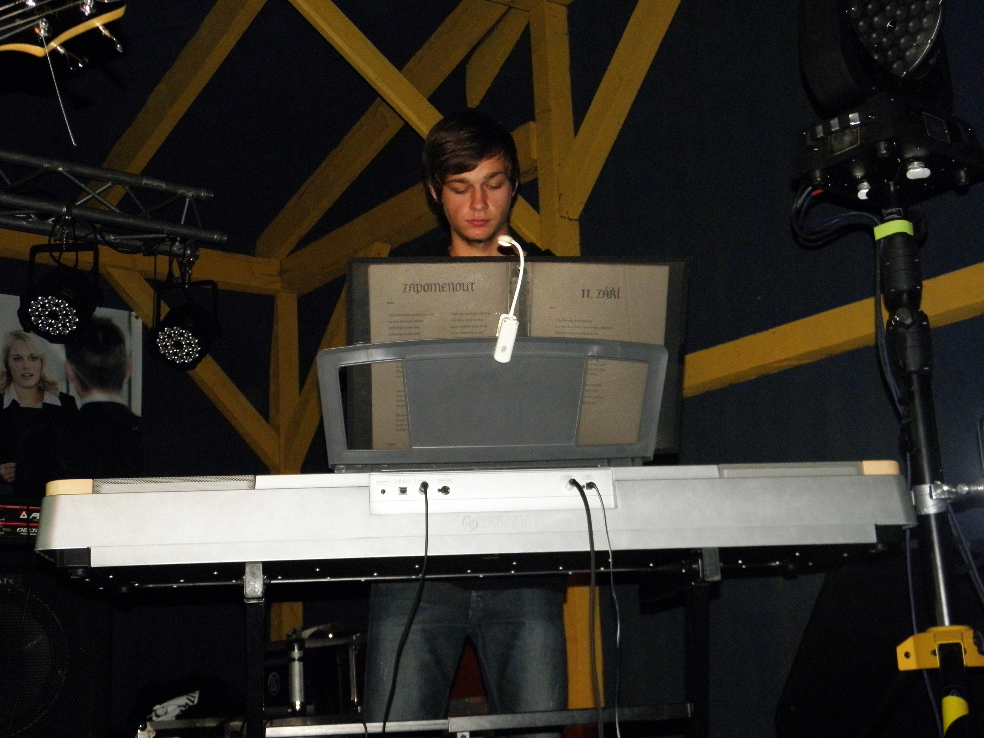 Czech music group Ortel, concert in Runway Club near Hradec Kralove.